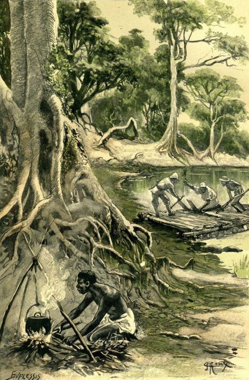 An illustration from Jules Verne's novel "The Village in the Treetops" (lit. "The Aerial Village", 1901) drawn by George Roux.